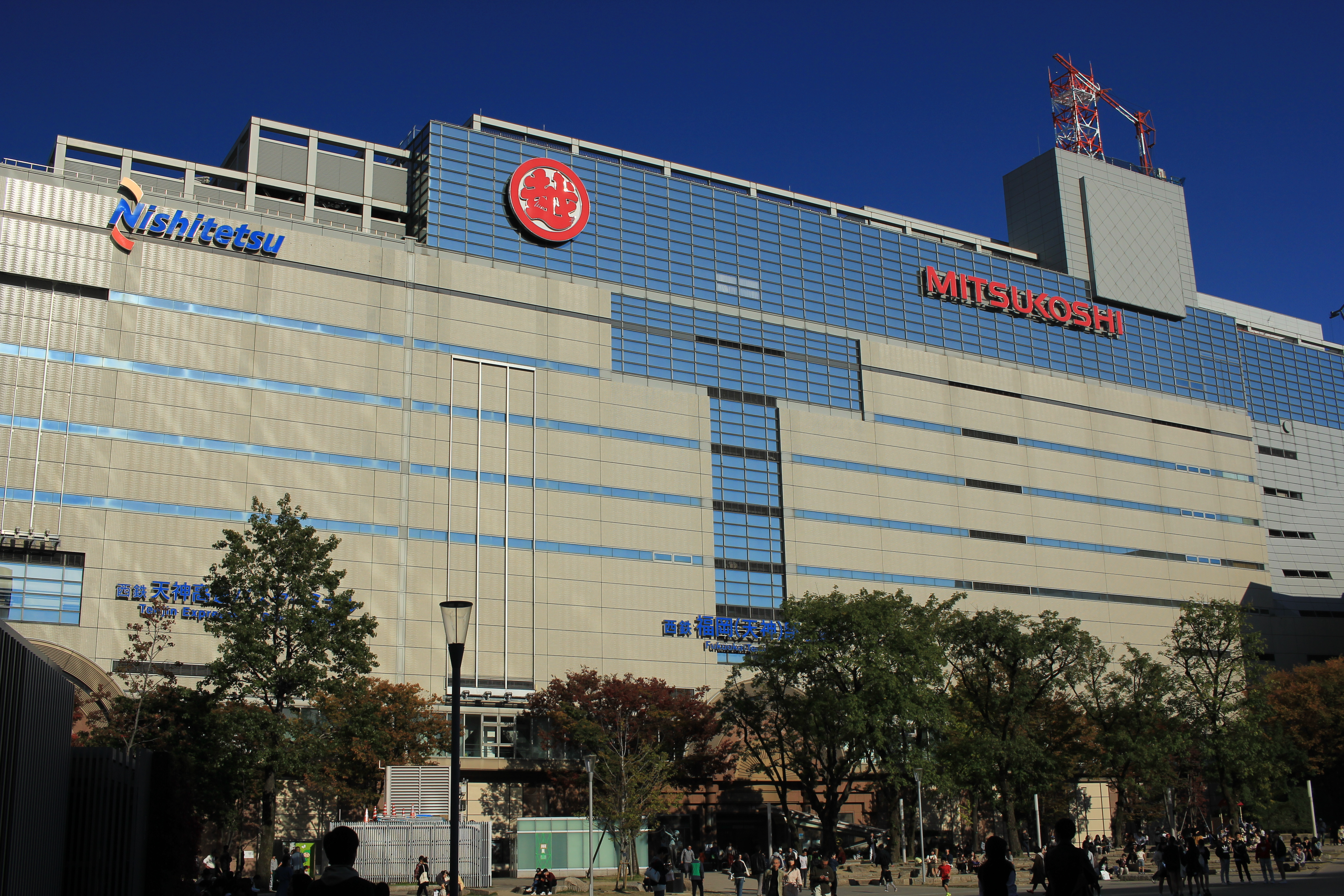 Solaria Terminal Building from Kego Park Canon EOS 60D